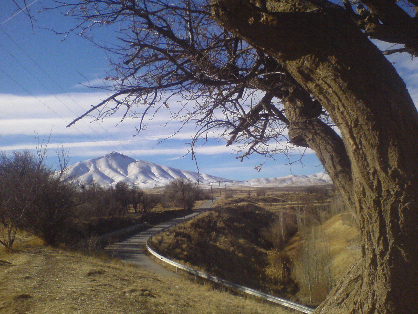 faraj abad فرج آباد روستایی زیبا در استان مرکزی شهرستان خمین